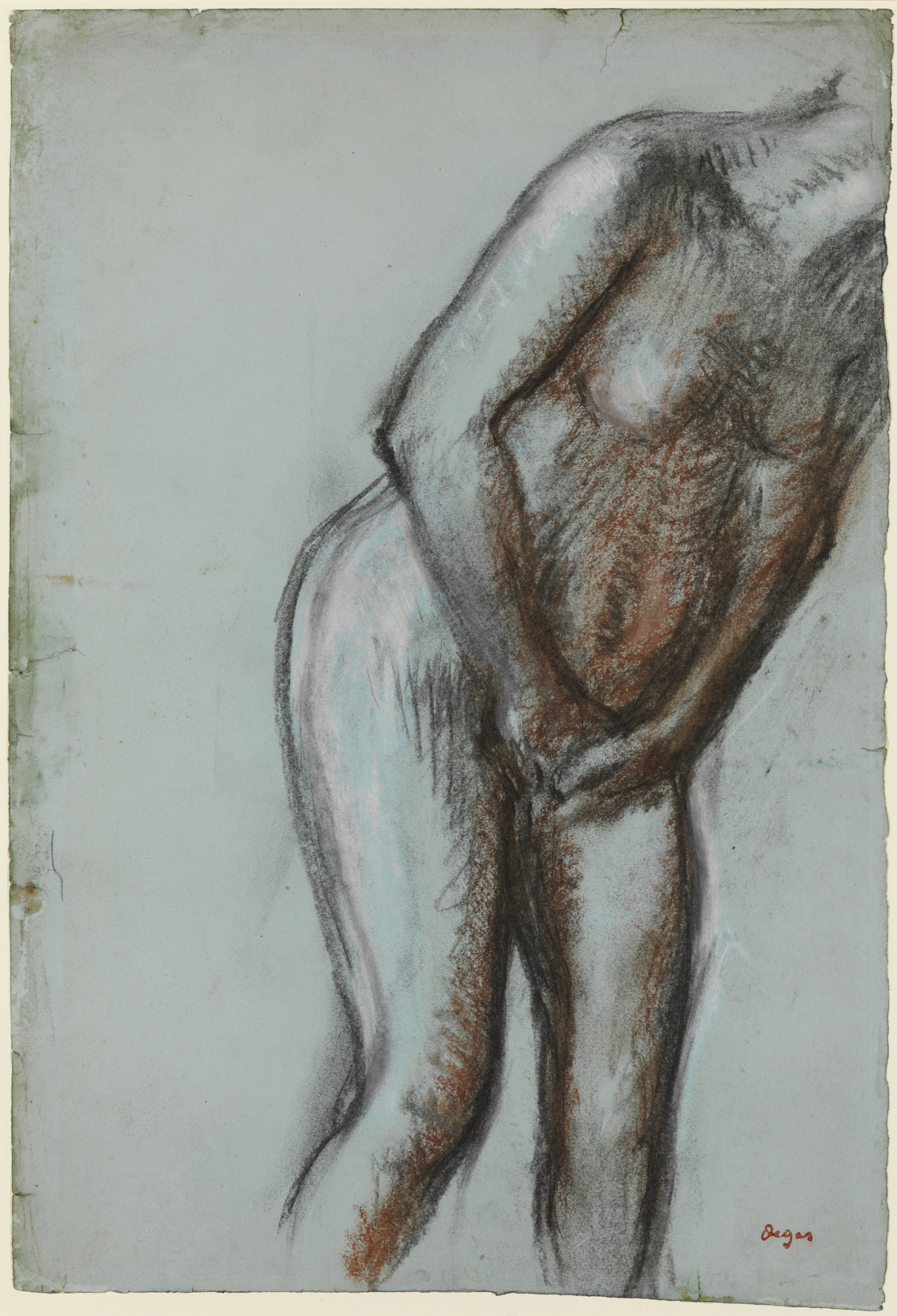 Edgar Degas, French, 1834–1917 Bather (Standing Female Nude), ca. 1896 Charcoal and pastel on bright, light blue wove paper 47 x 32 cm. (18 1/2 x 12 5/8 in.) frame: 74.9 x 58.7 cm. (29 1/2 x 23 1/8 in.) Gift of Frank Jewett Mather Jr. x1943-136